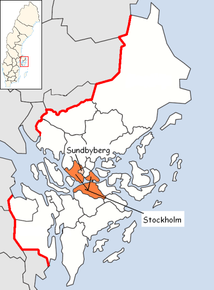 Sundbyberg Municipality in Stockholm County Designed by me. Mere outlines are a PD source from